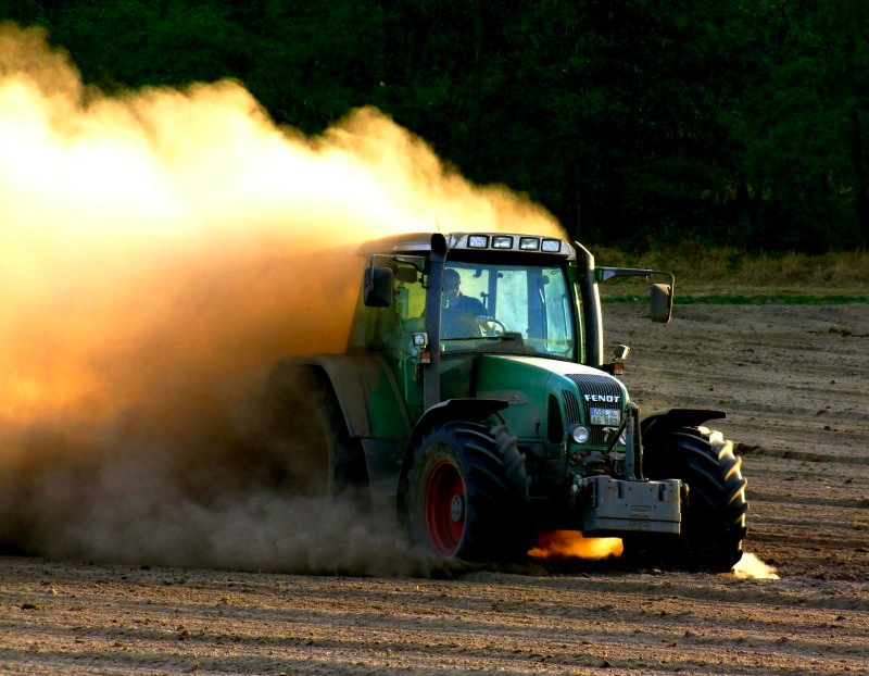 A Fendt tractor raising dust on a field in Eastern Germany